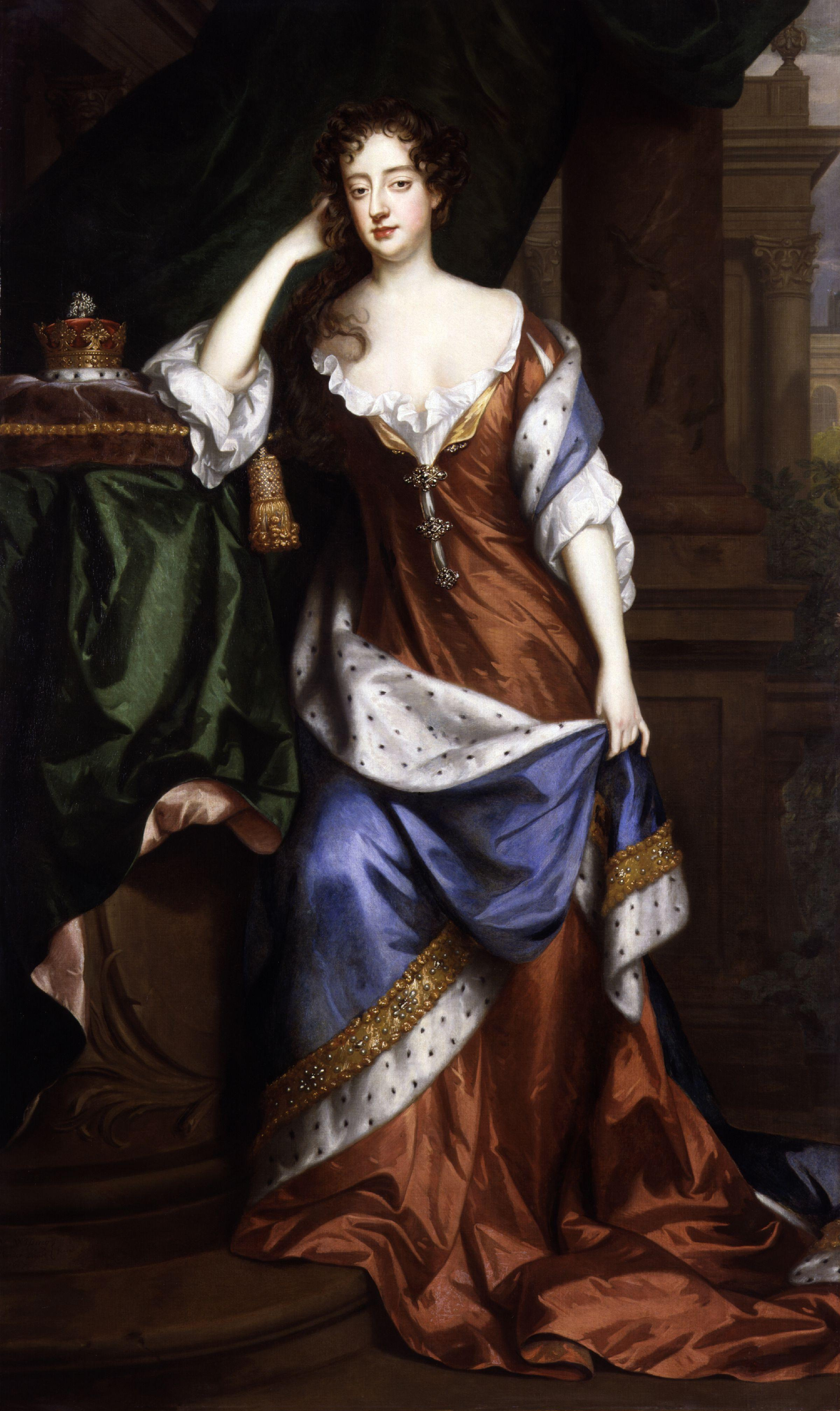 All images in this batch have been confirmed as author died before 1939 according to the official death date listed by the NPG.